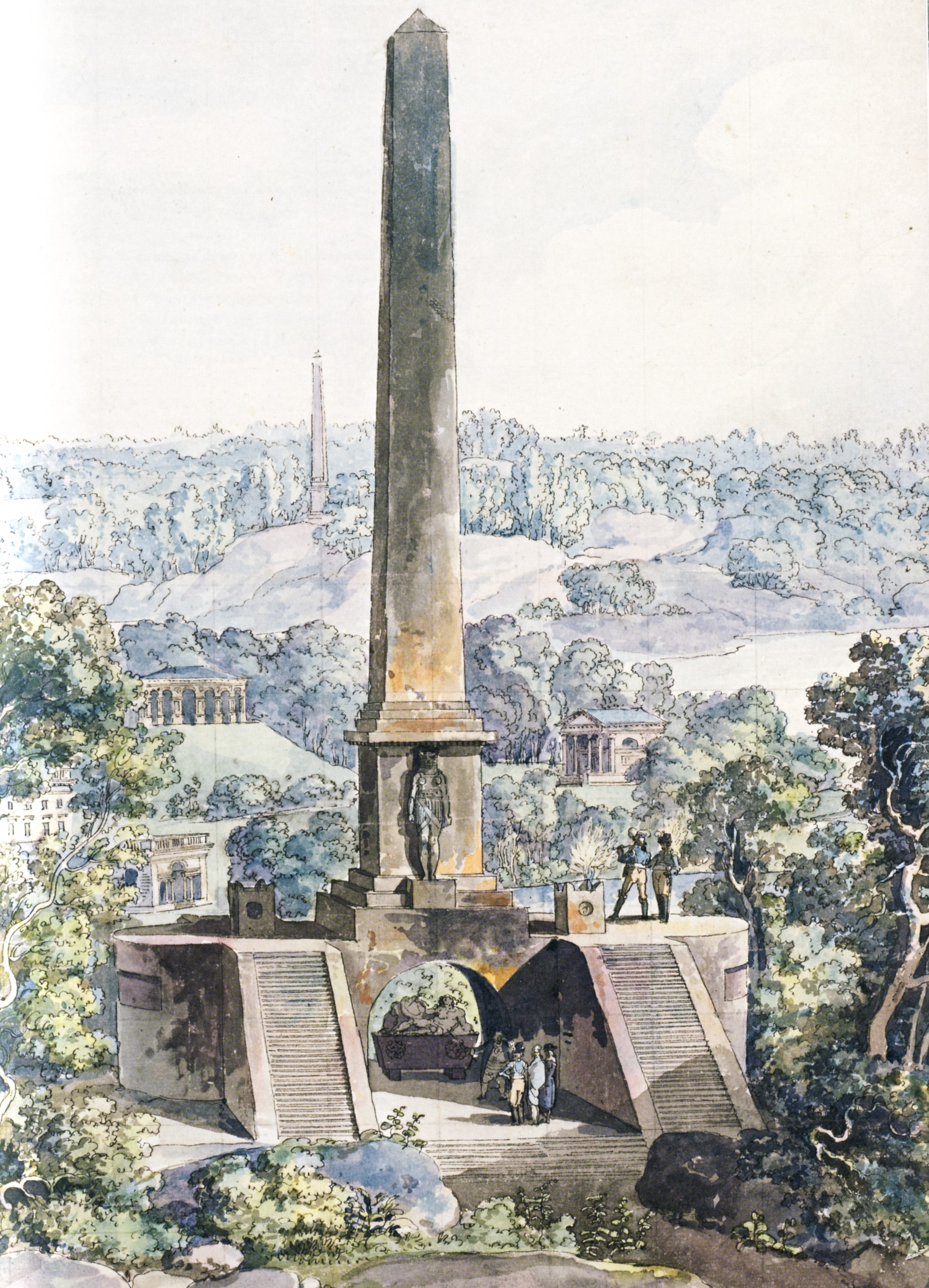 Planned obelisk in the Haga park